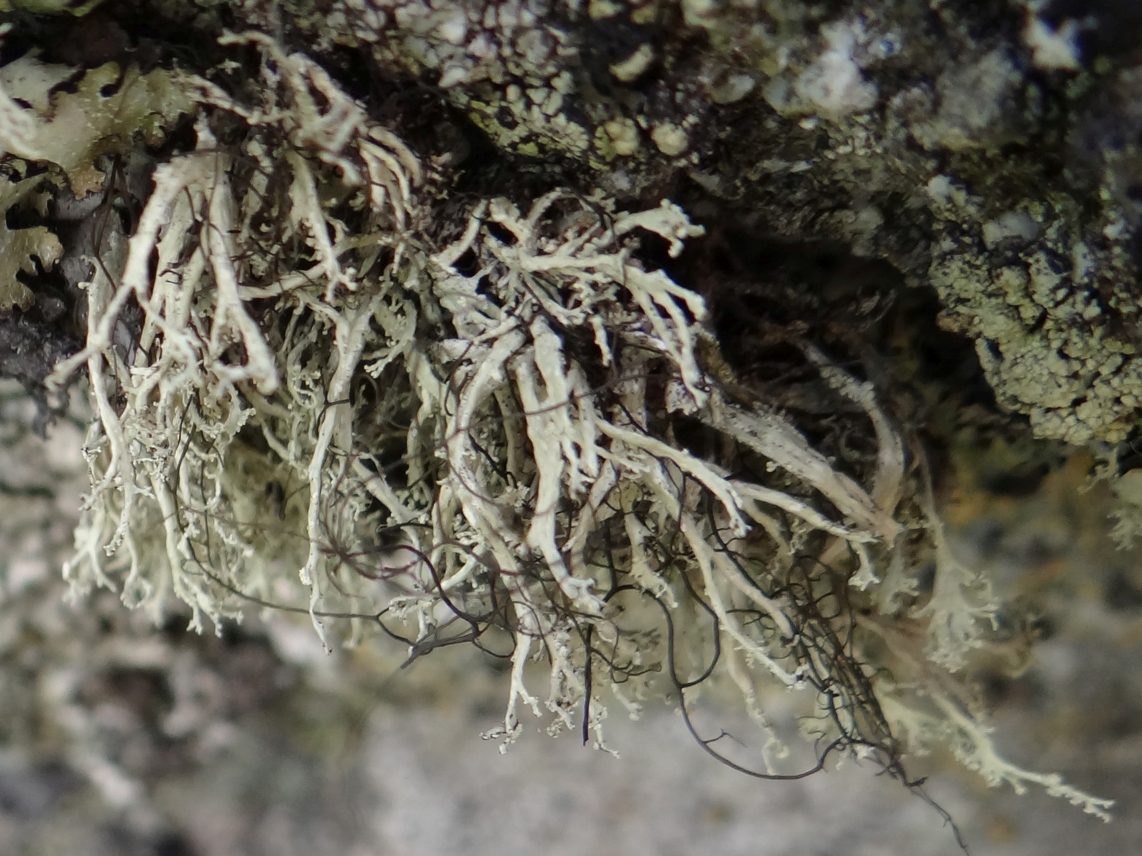 Ramalina intermedia and Bryoria fuscescens (location: Slovakia, Nízke Tatry, Tanečnica)